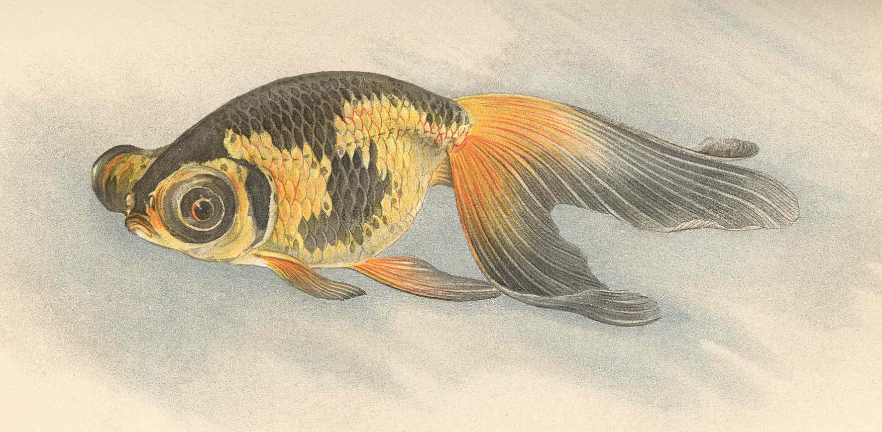 Deme Ranchu Subject: Goldfish Tag: Fish